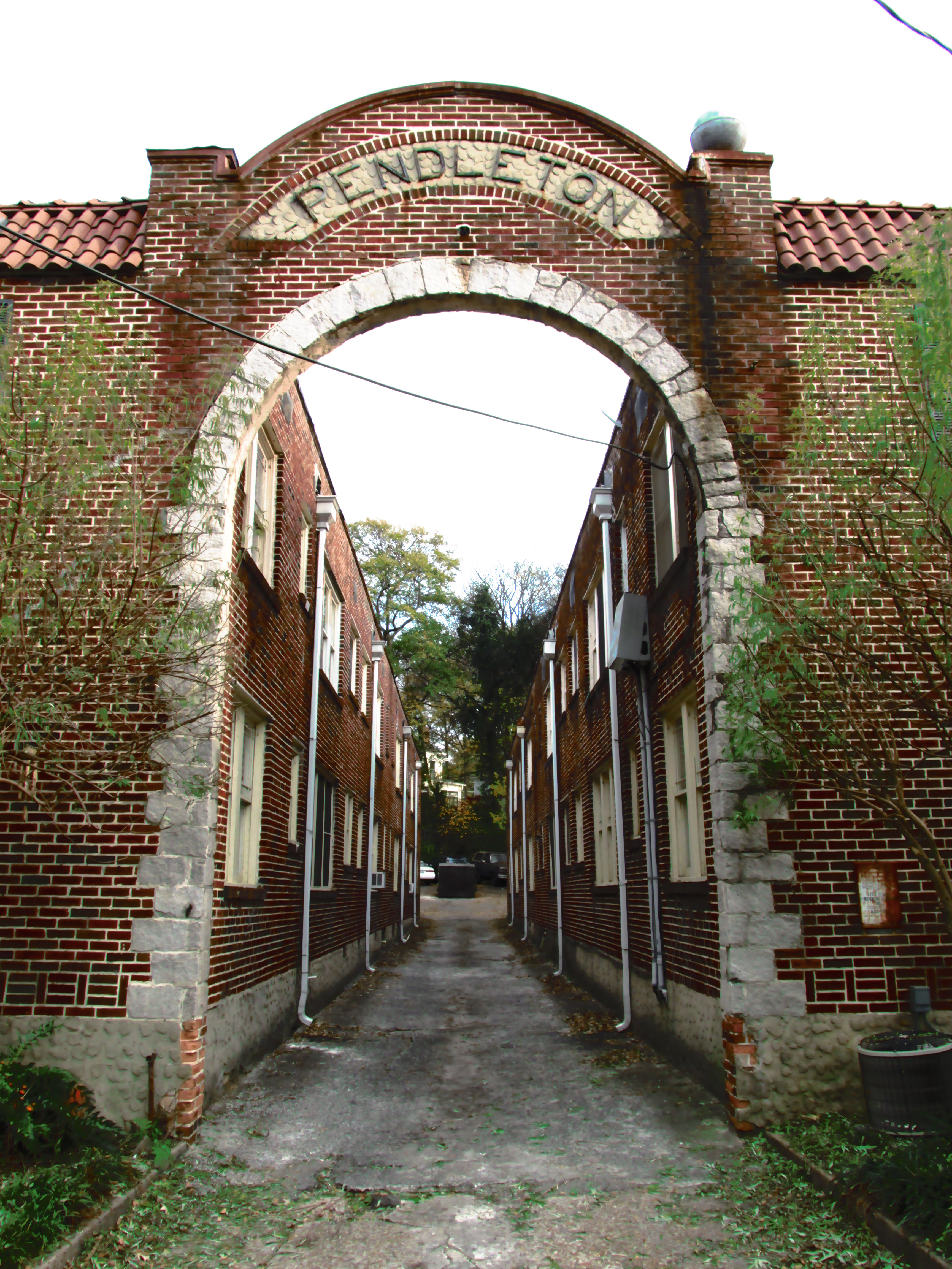 Pendleton Apartments, Euclid Avenue, Inman Park, Atlanta Georgia